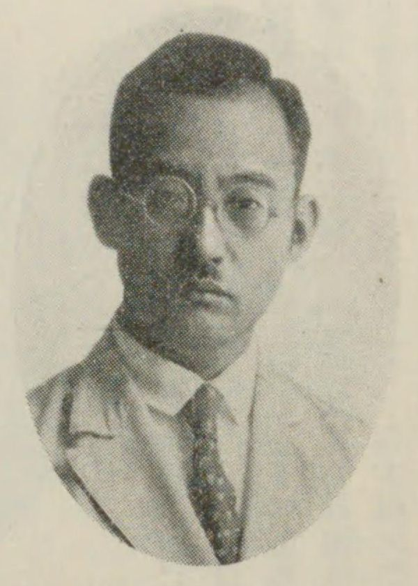 Shō Rin